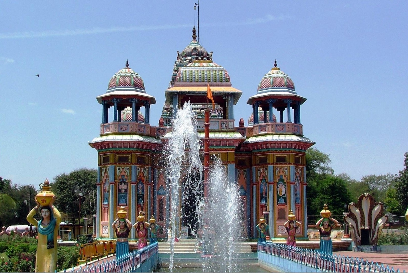 the majestic Balajipuram Temple at Betul - madhya pradesh .